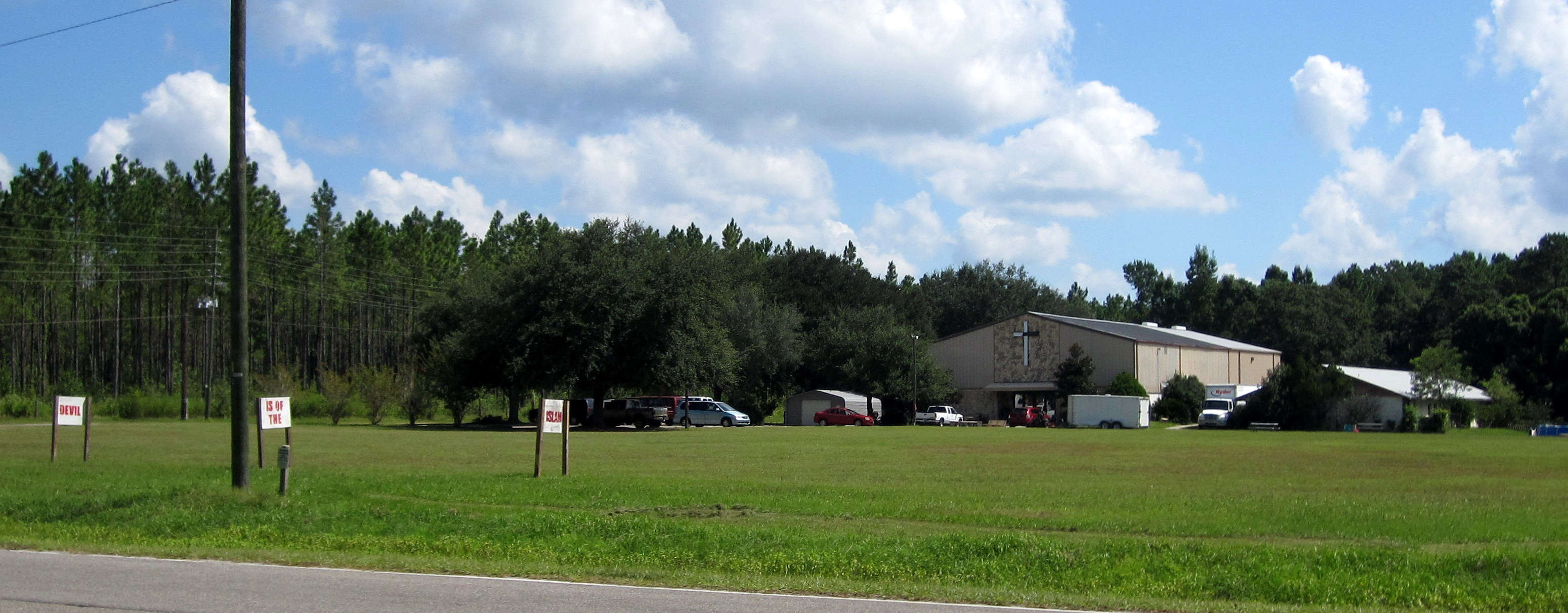 Dove World Outreach Center in Gainesville, Florida. In September 2010, this small church of about 50 members gained international attention when pastor Terry Jones proposed to burn Qur'ans on the 9th anniversary of the 9/11 attacks. The burning was canceled, and the church later announced that they would be relocating to the Tampa area due to lack of community support. Of particular note is the series of anti-Islam signs on the front of the property. The architectural work depicted in this photograph may be covered under United States copyright law (17 USC 120(a)), which states that architectural works completed after December 1, 1990 are protected. However, architectural copyright in the United States does not include the right to prevent the making, distributing, or public display of pictures, paintings, photographs, or other pictorial representations of the work. See Commons:Freedom of Panorama#United States for more information. This law only applies to architectural works (such as buildings or other structures) and not other forms of 3D or 2D artwork such as sculptures, paintings, or posters. Images of these artworks taken in the US must be deleted unless they are in the public domain, or their presence is incidental.